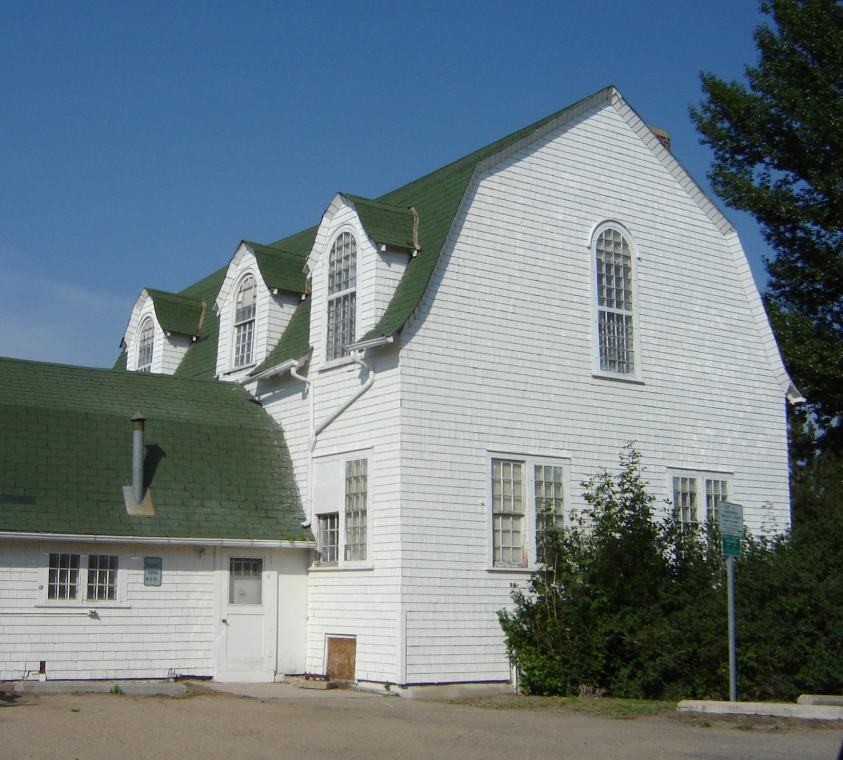 Poultry Sciences Building U of S Saskatoon Saskatchewan Canada